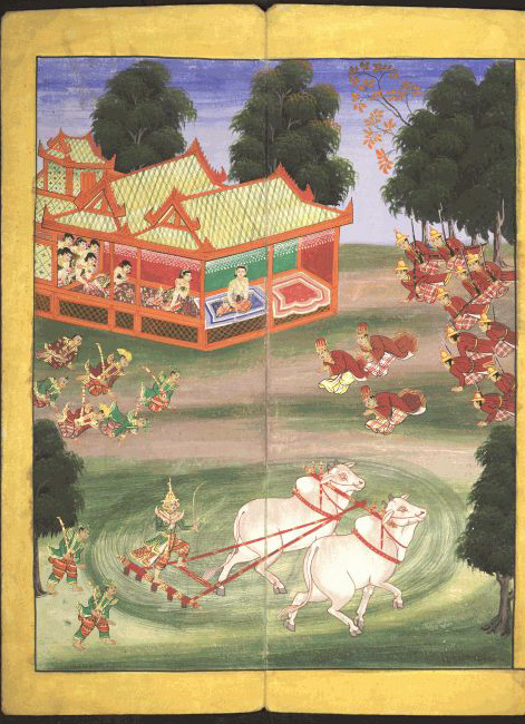 The queen watching a ploughing ceremony with oxen. From a 18th century Burmese watercolour parabeik (picture book) showing royal pasttimes. Shelfmark: MS. Burm. a. 6